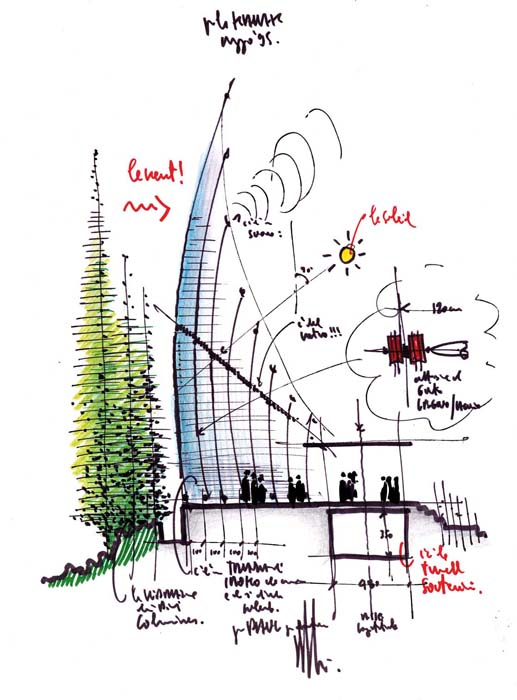 Diagram of a case at Jean-Marie Tjibaou Cultural Centre by Renzo Piano